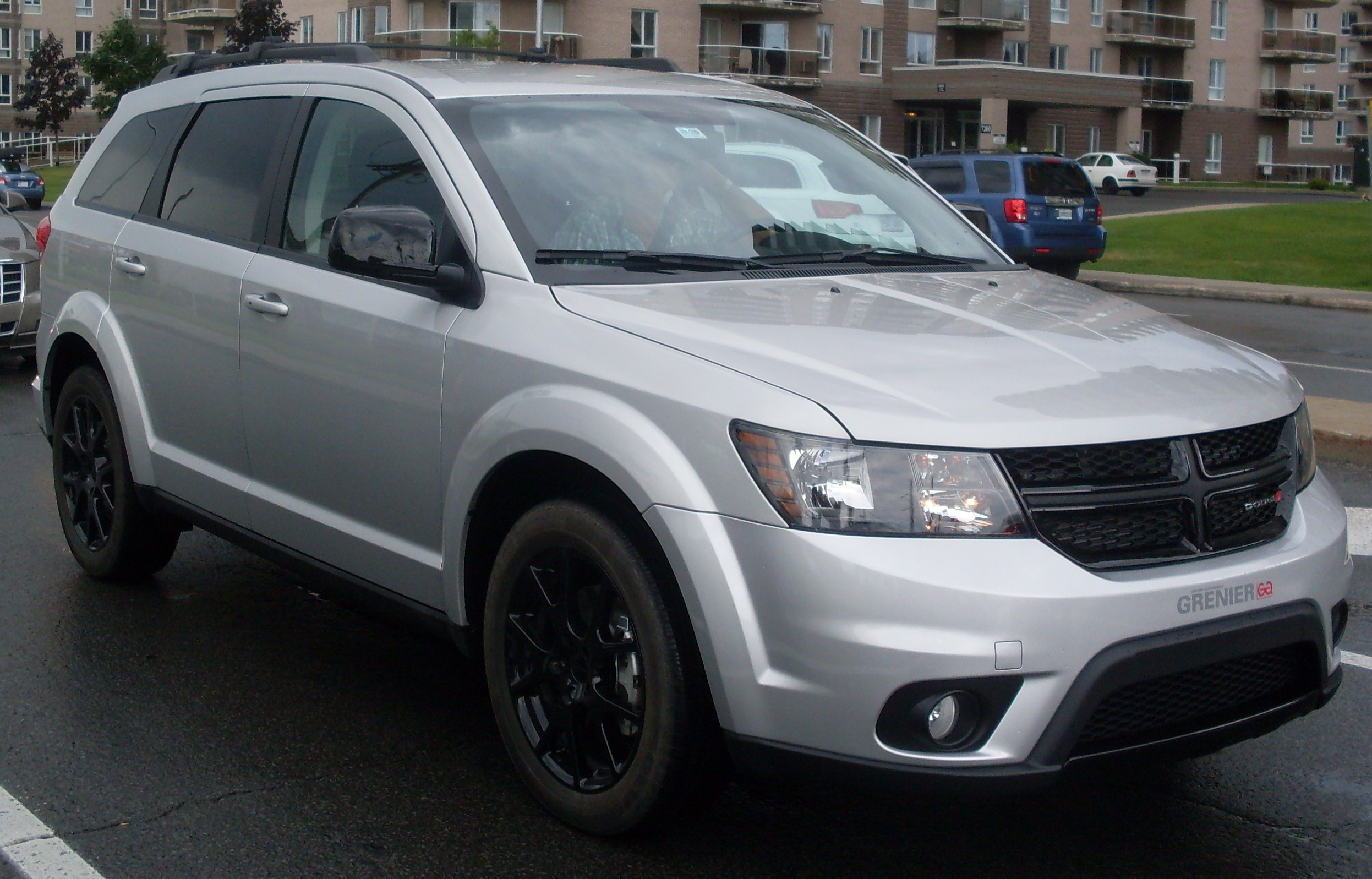 2012.5-present Dodge Journey photographed in Montreal, Quebec, Canada despite the fact the trim is Canada Value Package.